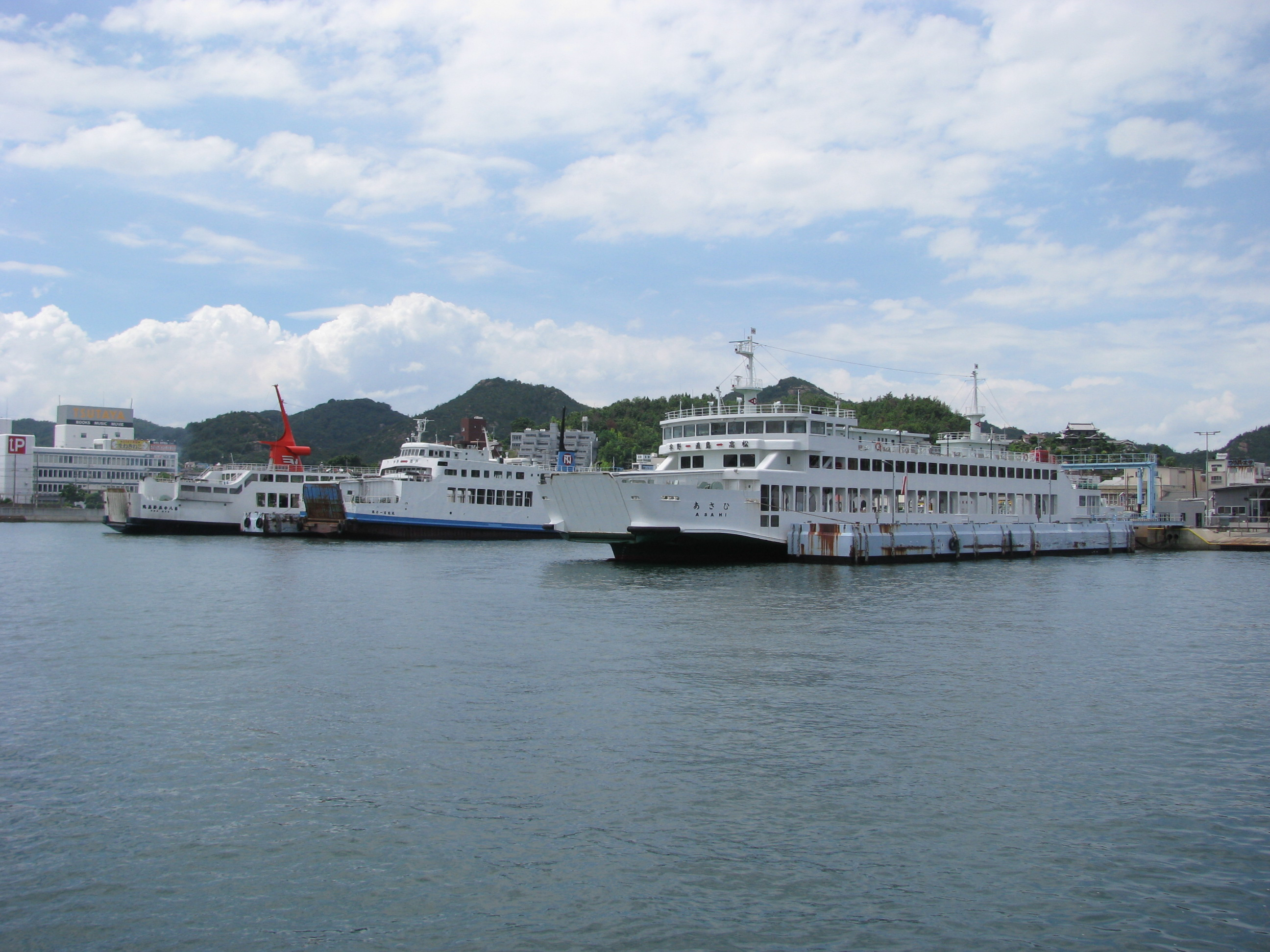 The Uno-ko. This place is Tamano, Okayama, Japan.